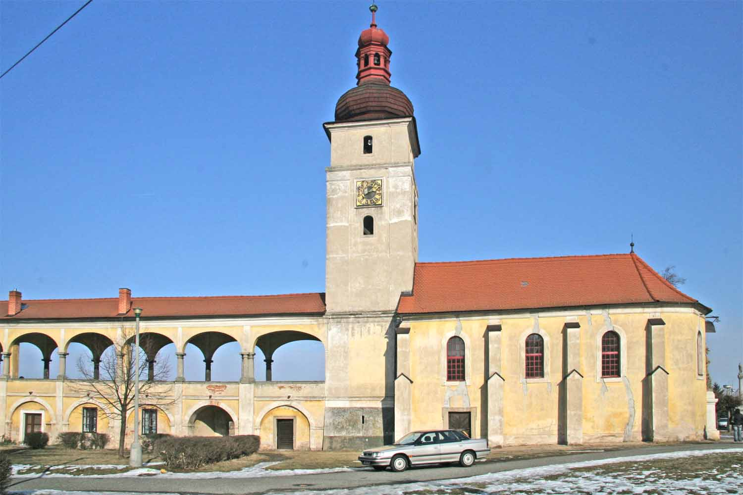 Chateau chapel of St Martin in Nové Dvory, Kutná Hora District, Czech Republic